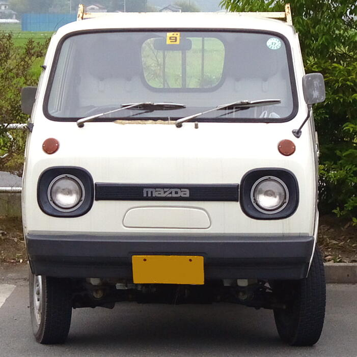 Mazda Portercab (1985-1989)